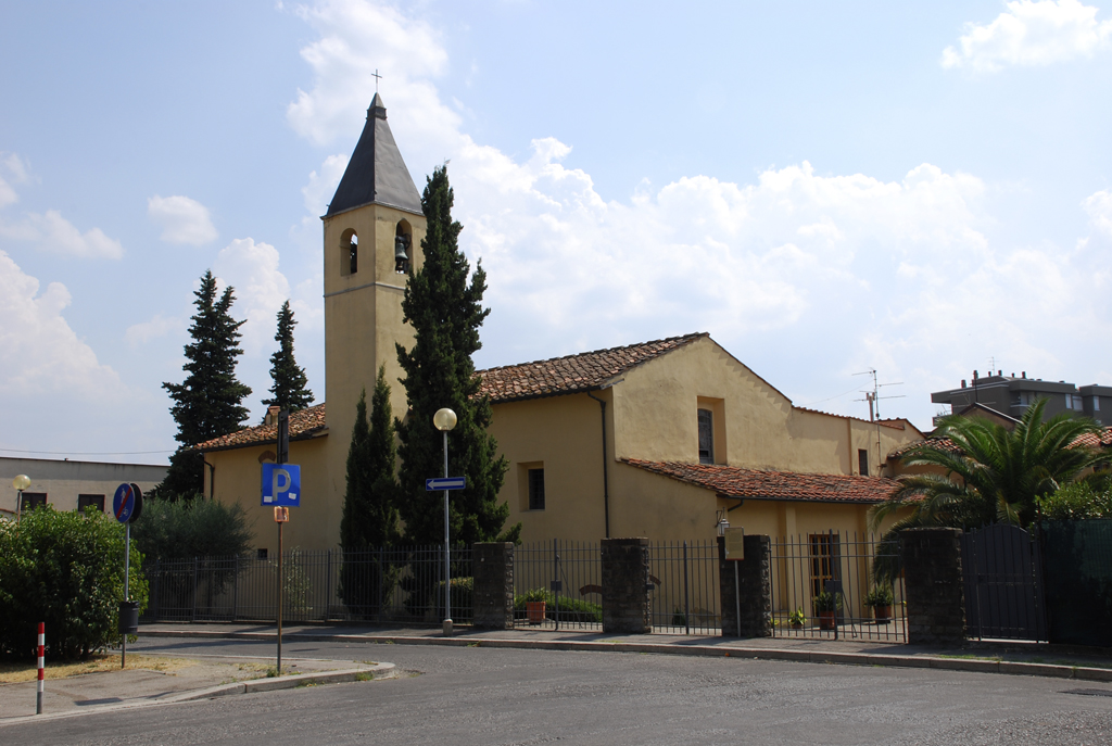 the Church of San Bartolo at Cintoia, Florence, Italy. Overview.